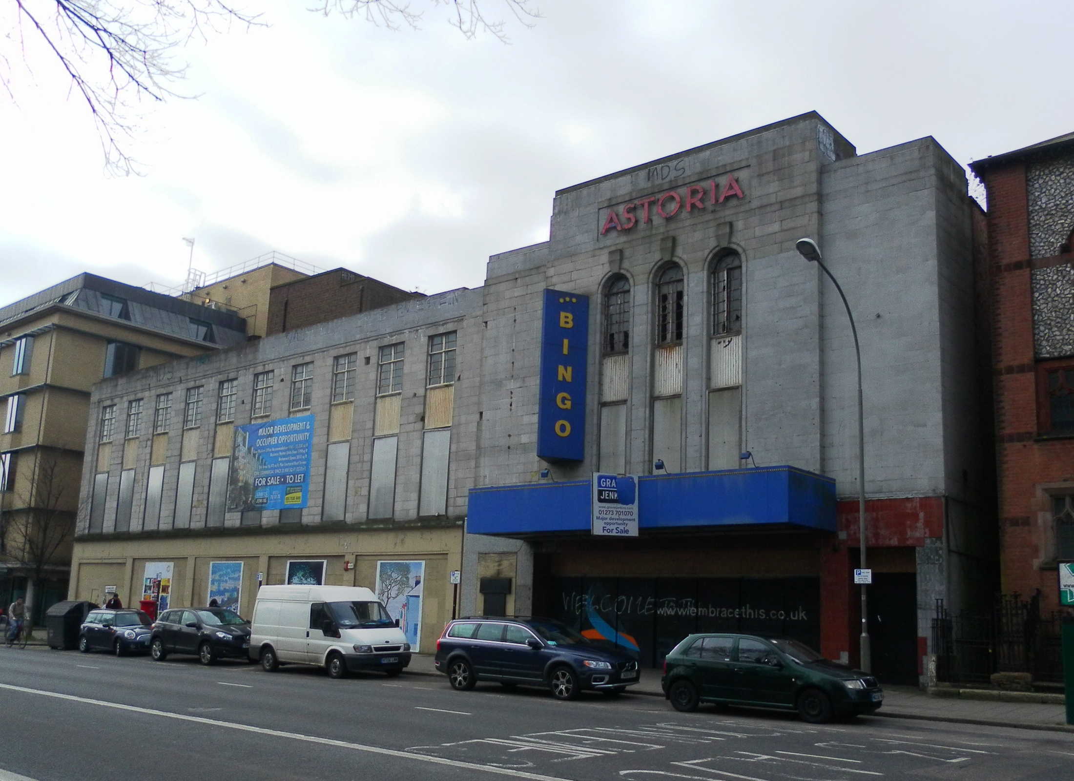 The former Astoria Cinema, Gloucester Place, Brighton, City of Brighton and Hove, England. Built in 1933 as an 1,800-capacity "super-cinema" by Edward Stone, it became a bingo hall in 1977 and closed down in 1997. As of 2013, it is still empty. Listed at Grade II by English Heritage (IoE Code 486887)